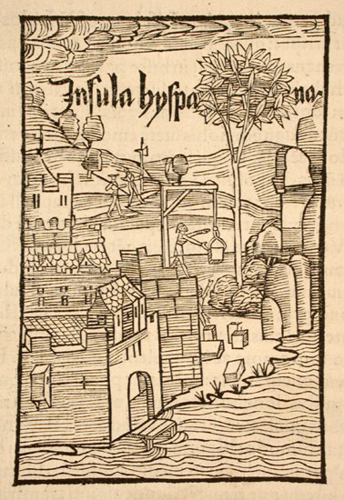 Woodcut depicting the construction of the fort of La Navidad in Hispaniola by the crew of Christopher Columbus on the first voyage. Woodcut from the Basel edition of Columbus's letter, 1494, reproduced from an earlier edition from 1493 (probably also by same printer in Basel).